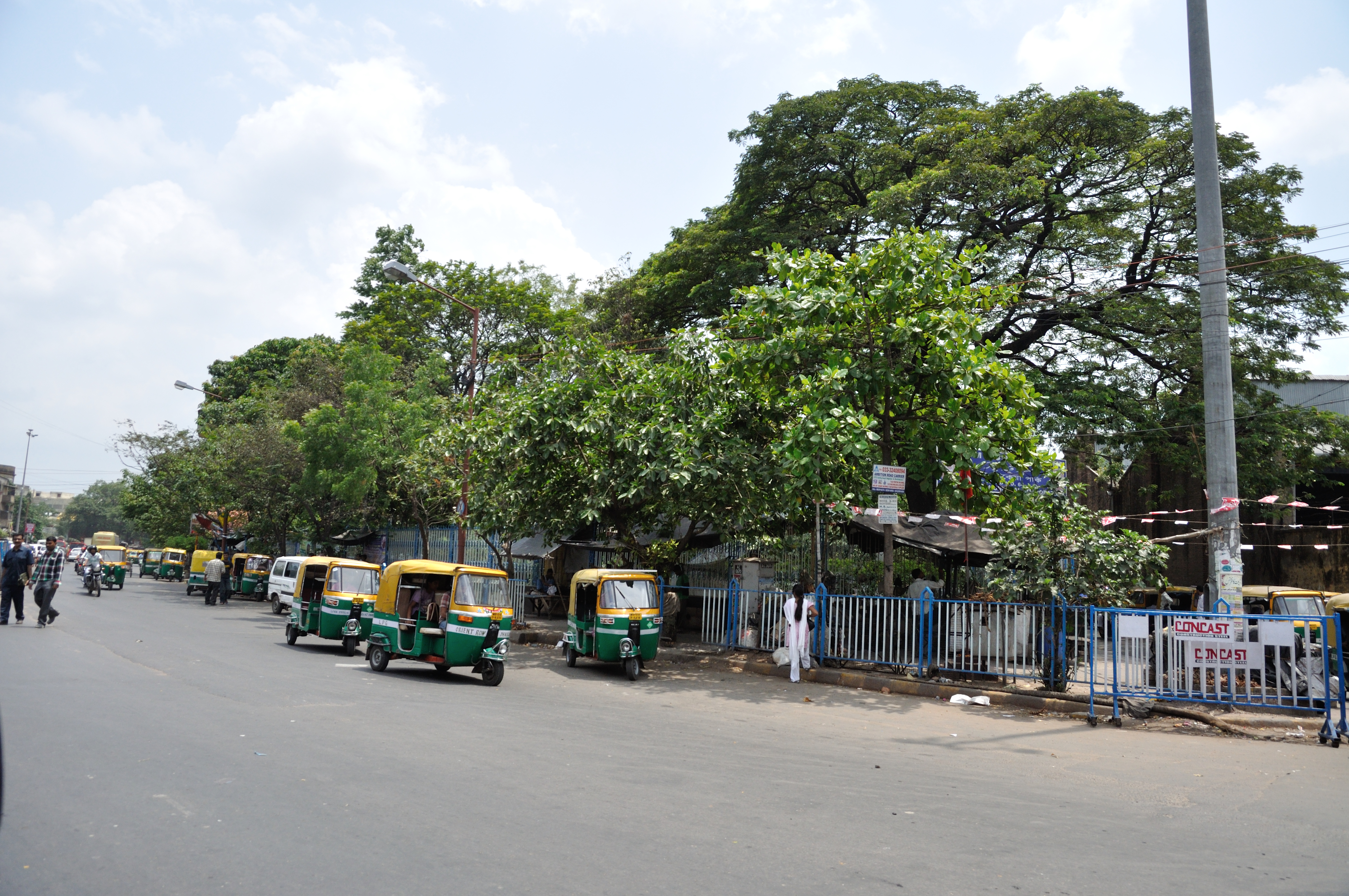 Photographed in Kolkata.